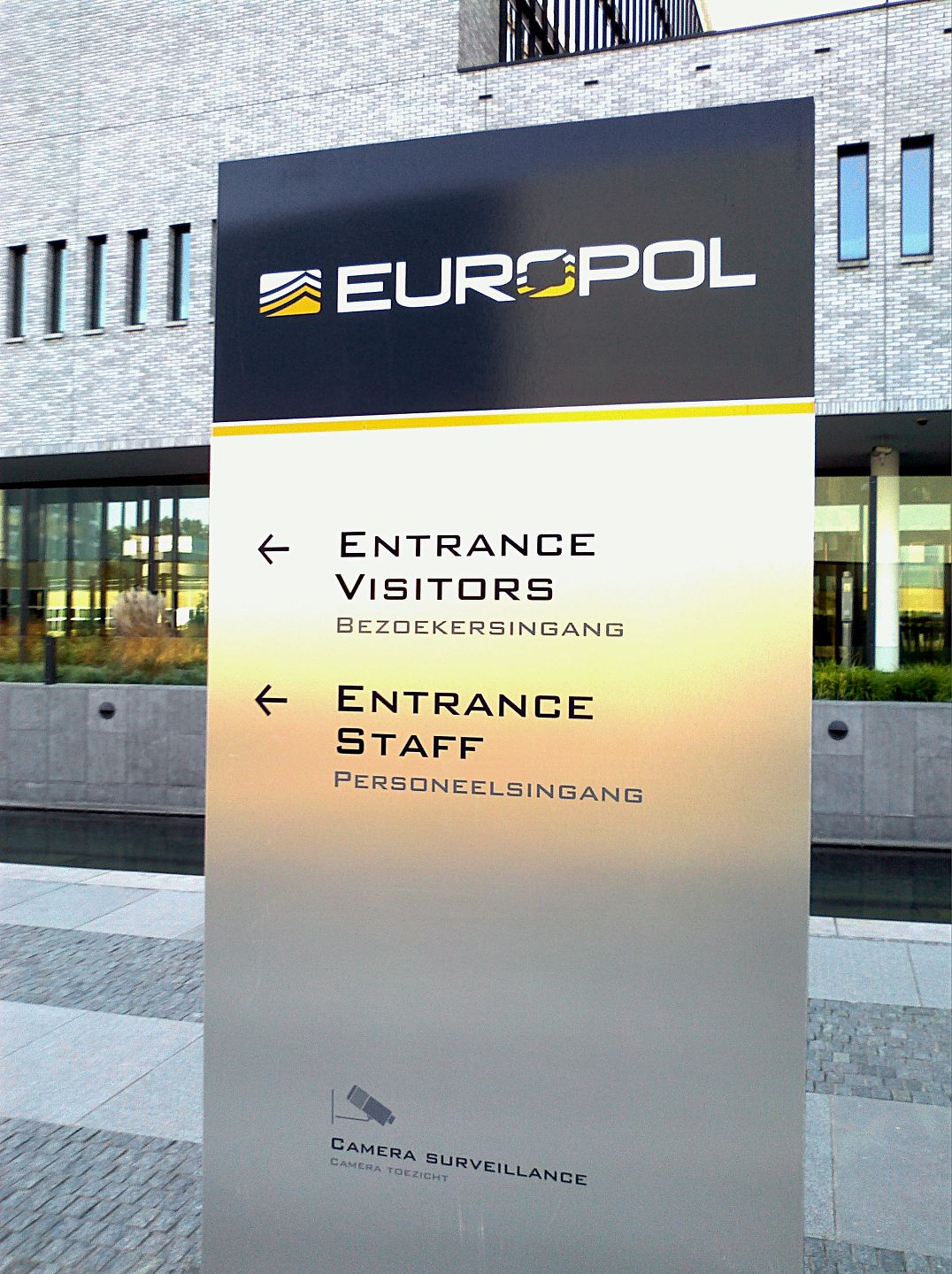 Europol building, The Hague, the Netherlands, is the headquarters of Europol, a European organization, in which national police forces cooperate, similar to Interpol.